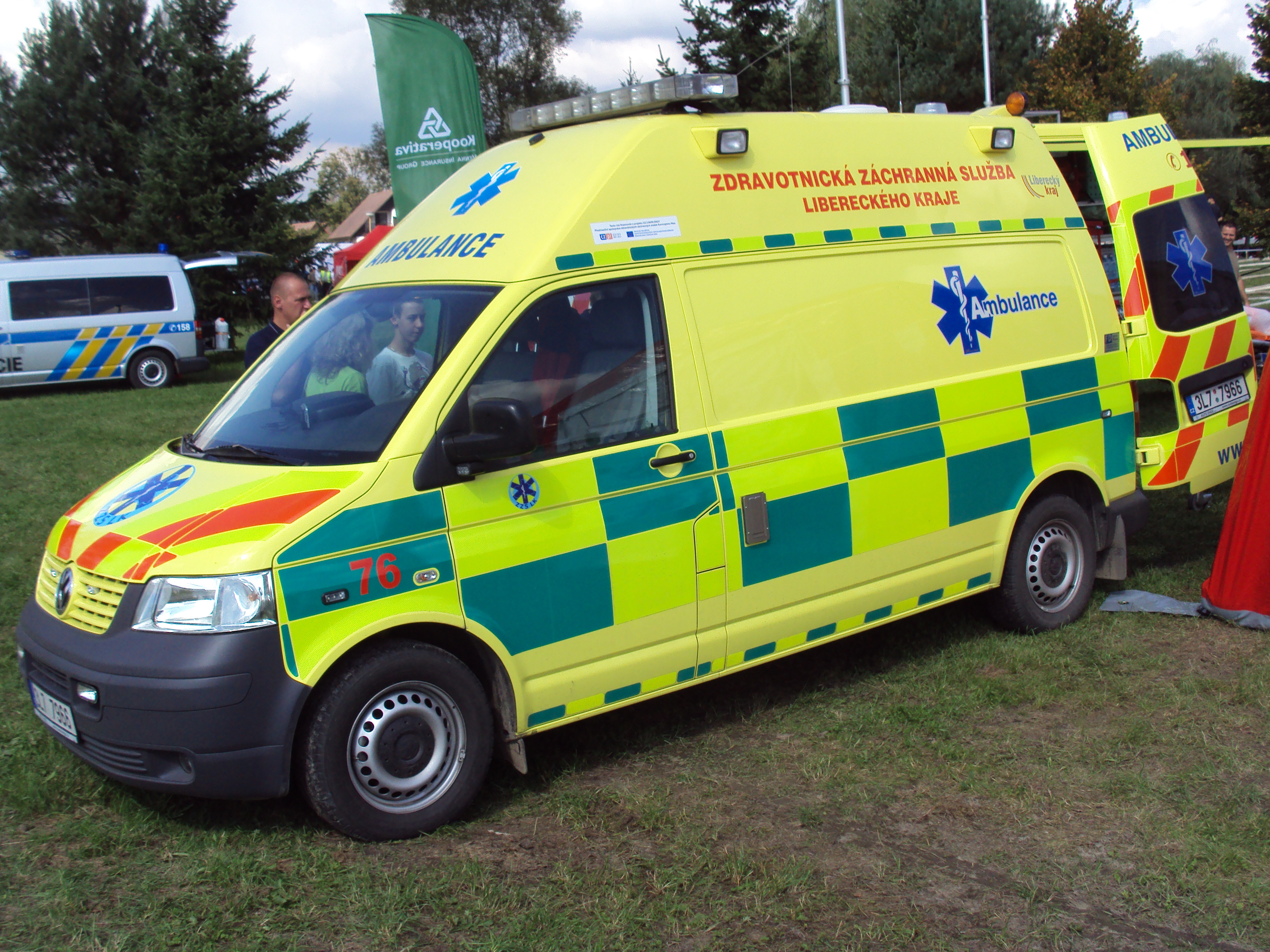 Volkswagen Transporter T5 ambulance of Zdravotnická záchranná služba Libereckého kraje in Zákupy, Liberec Region, Czech Republic